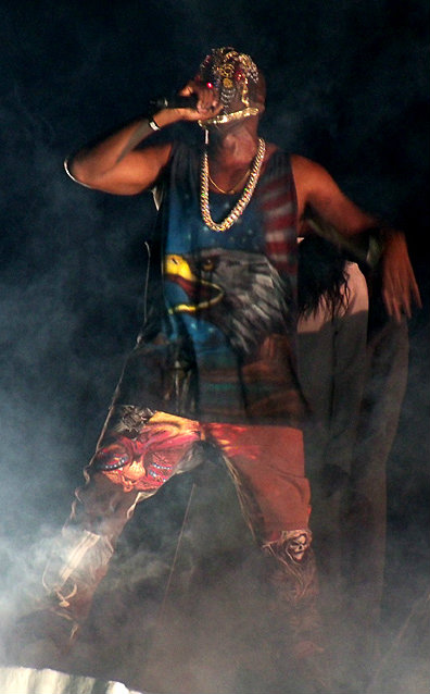 Kanye West live during the Yeezus Tour in 2013.